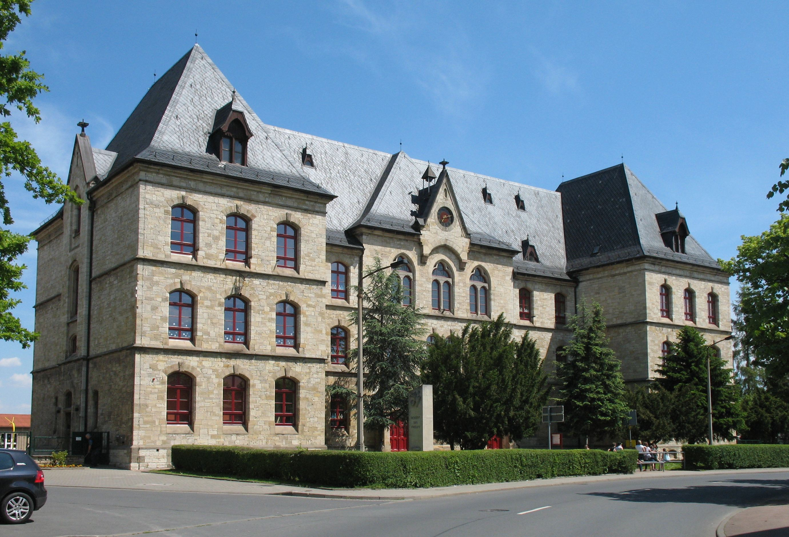 Elementary school in Querfurt in Saxony-Anhalt, Germany